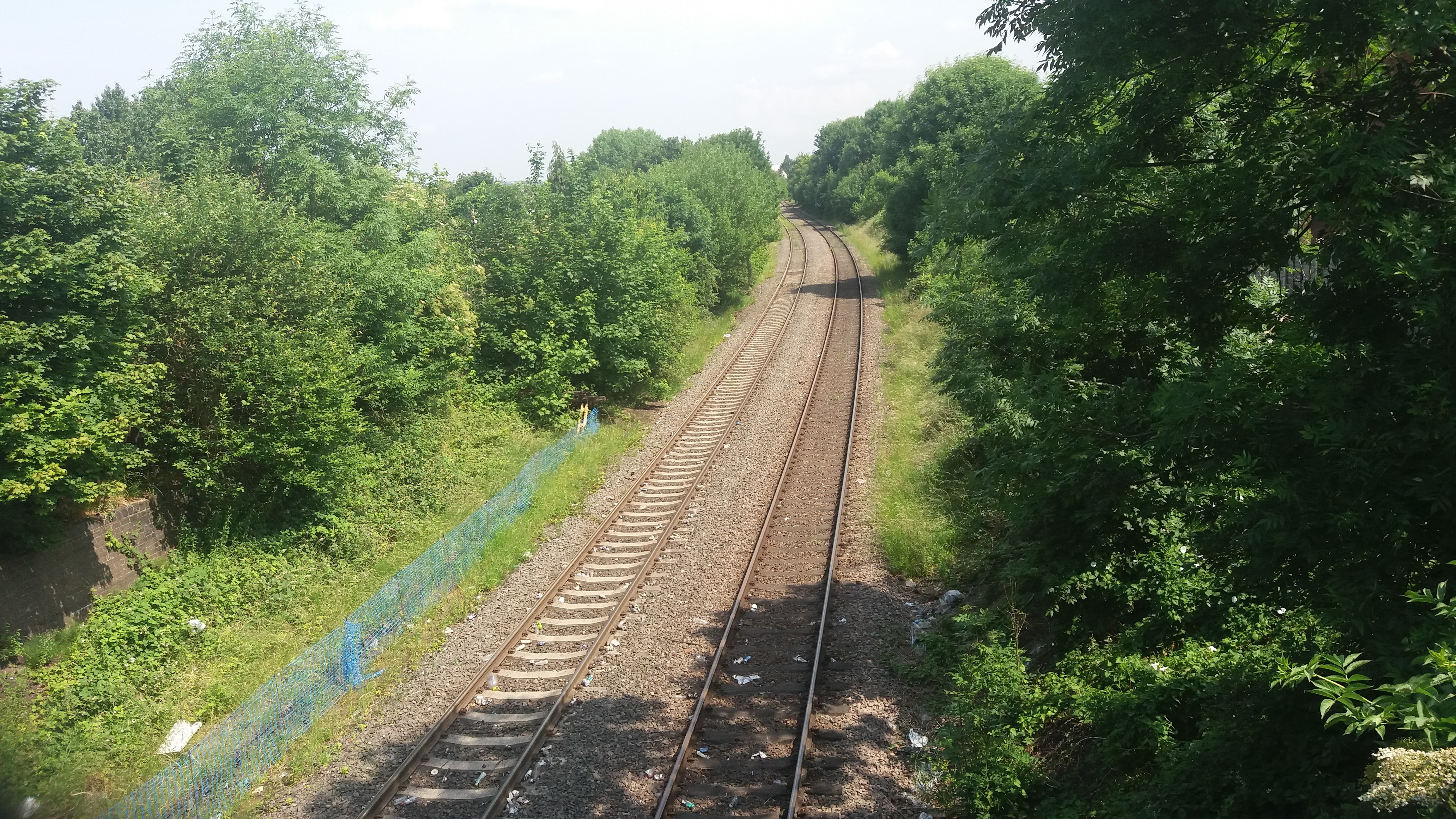 My own.